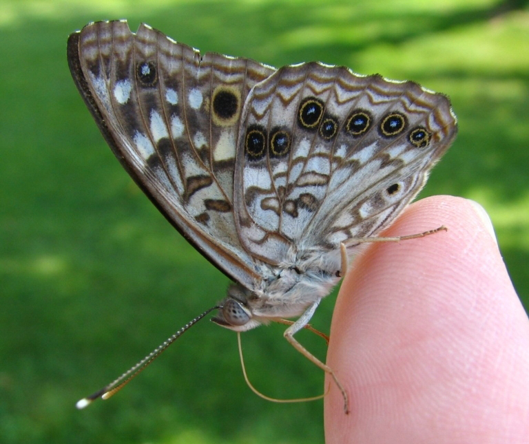 Asterocampa celtis, underside of wings